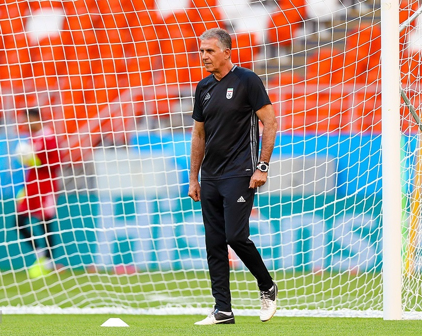 Carlos Queiroz